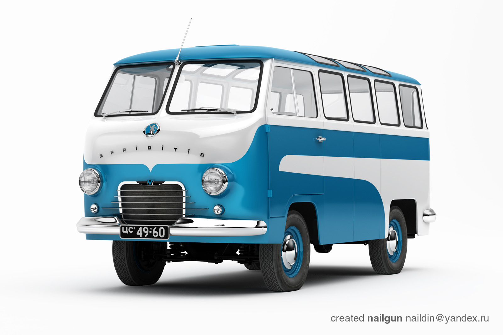 RAF-8 Spriditis. 1958 year. 3d model